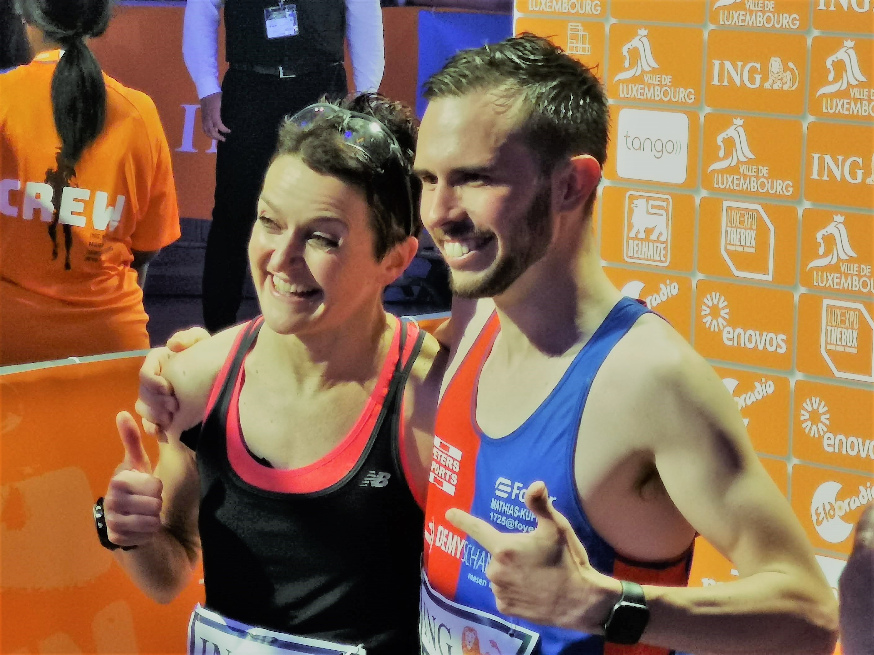 Best Luxembourgish runners of the 2019 Night Marathon in Luxembourg-City. Karin Schank (3:05:24) and Philippe Gillen (2:40:57).